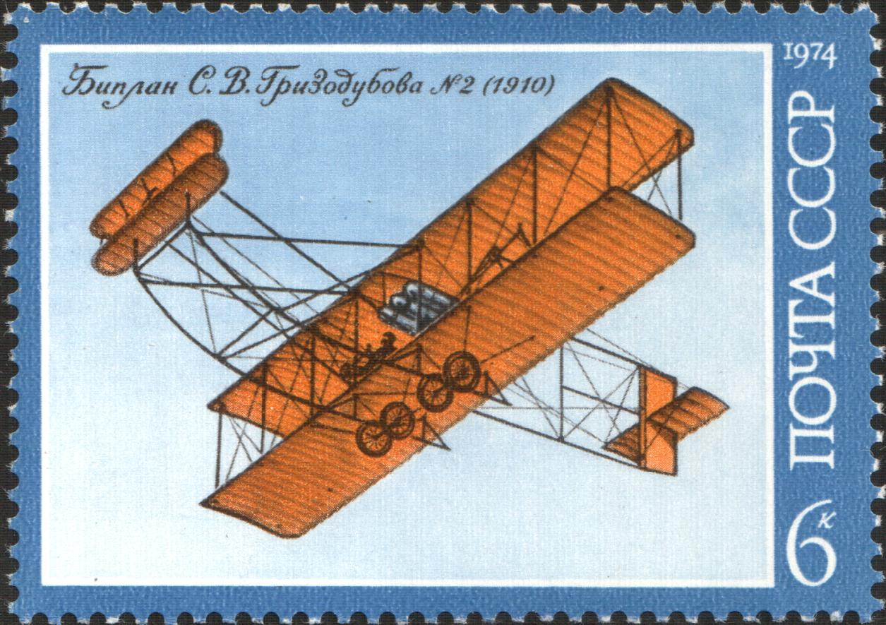 USSR stamp